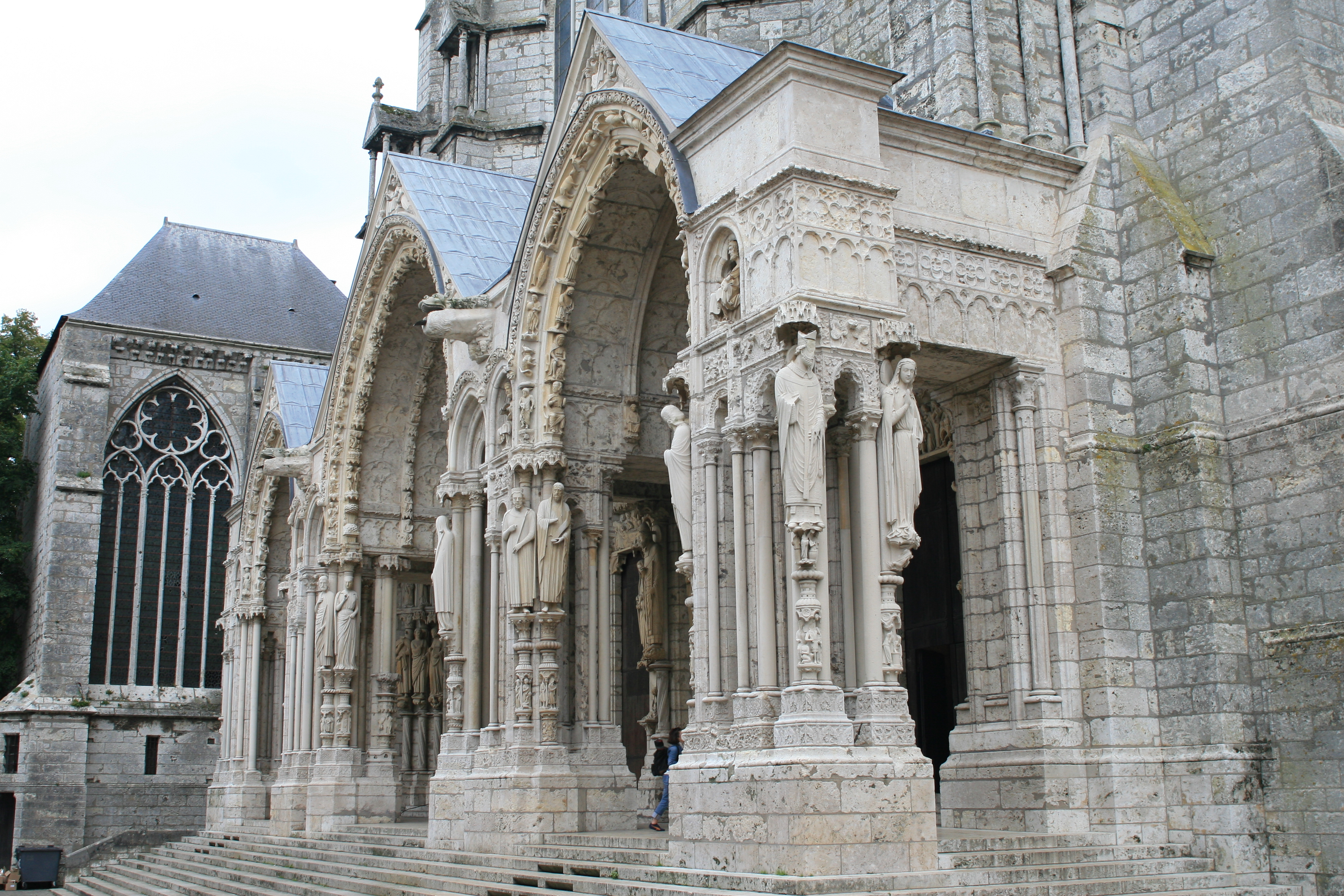 Chartres, France North porch of Chartres Cathedral, as seen from northwest.